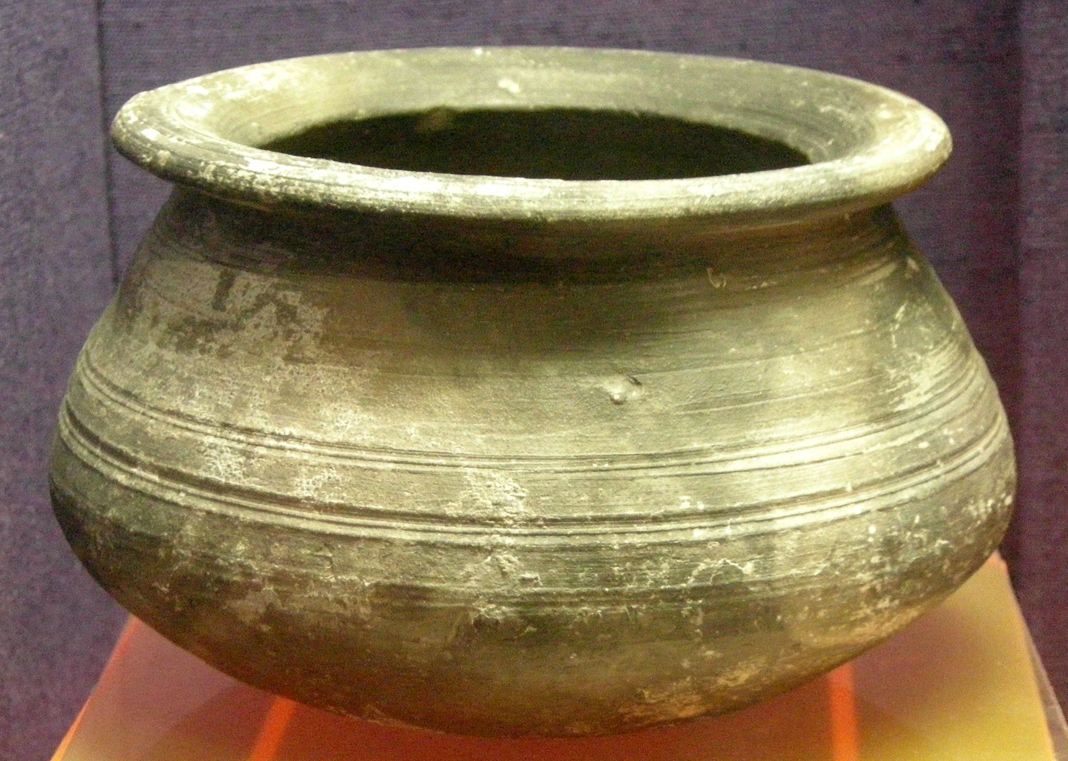 Herne Bay Museum, Herne Bay, Kent. 5th or 6th century Anglo-Saxon wheel-made pottery bowl, found on farmland near Marshside in the 1970s by farmer J.J. Harbour. A 5th century kiln was found and excavated on farmland at Marshside in the 70s.